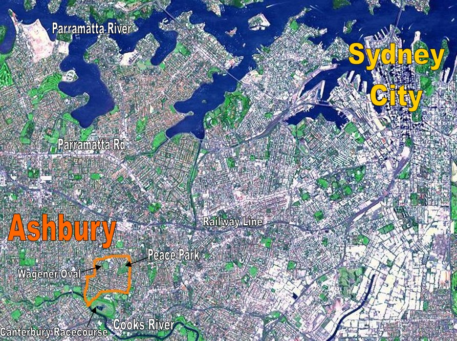 Location Map for the suburb of Ashbury, NSW based on NASA satellite map. Modified to identify suburb boundaries and identifiable landmarks.